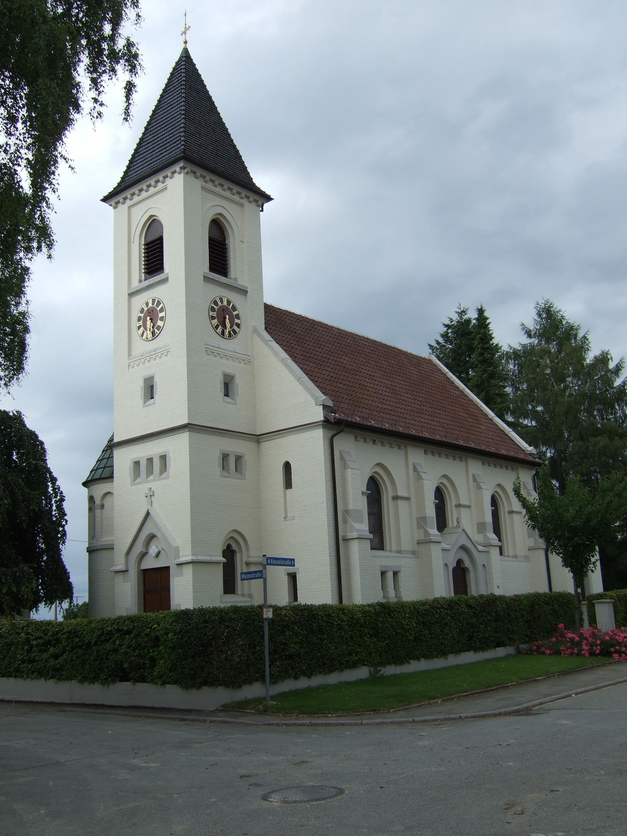 Albstadt-Burgfelden New Church